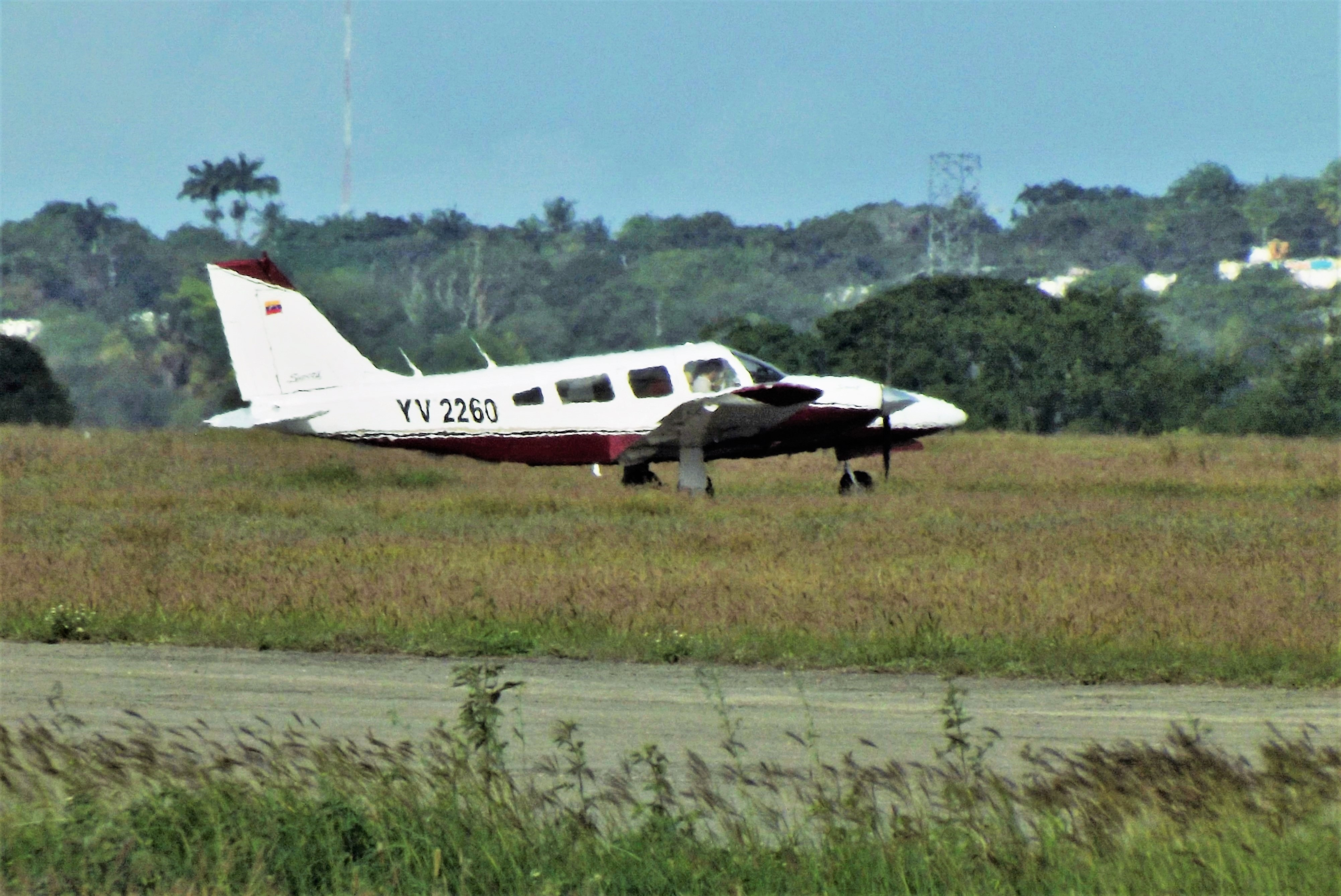 Piper PA-34-220T Seneca III at Jacinto Lara International Airport, Barquisimeto - Venezuela